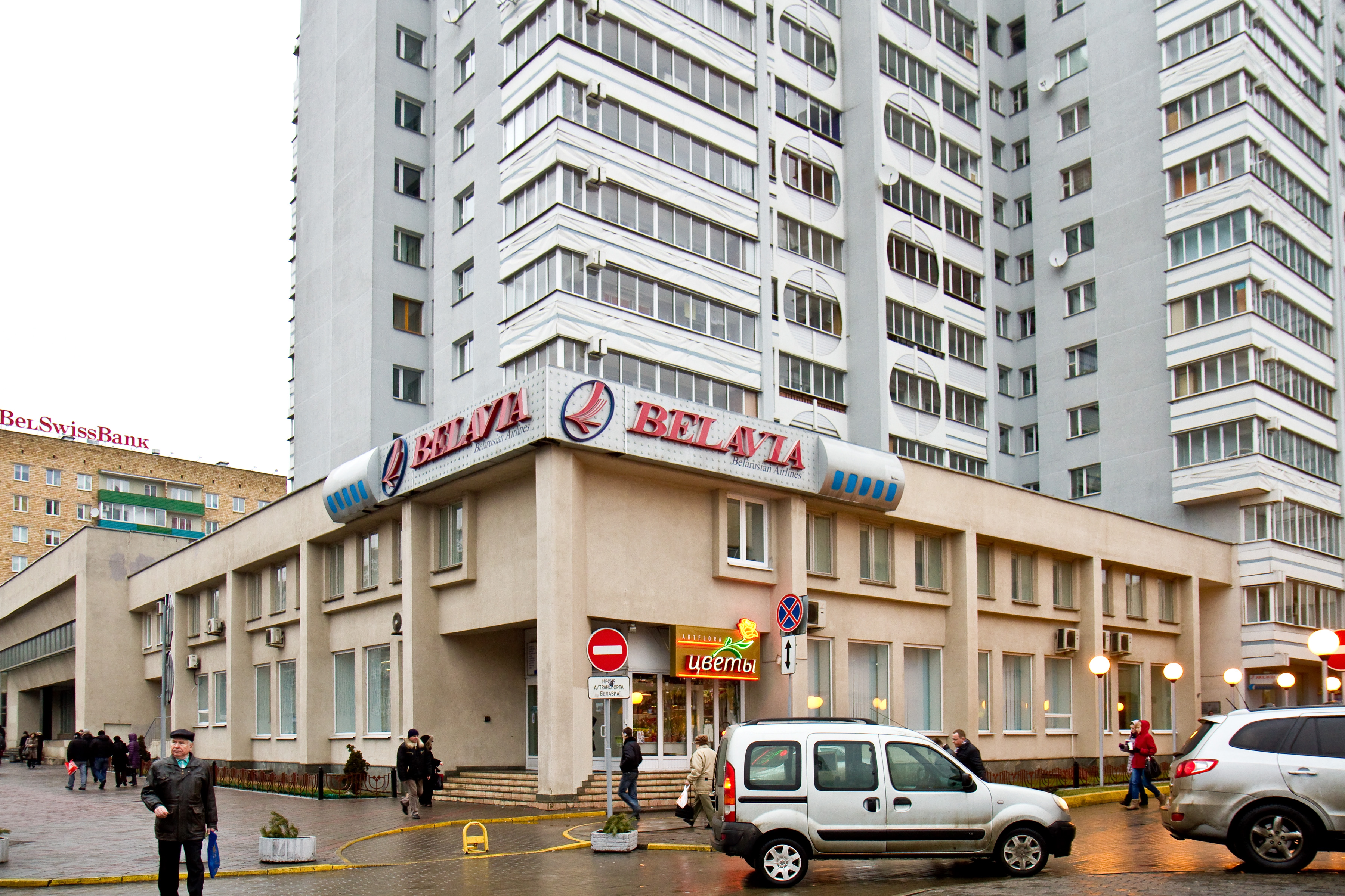 Belavia Headquarters, Minsk, Belarus. - 14, Nemiga str., Minsk, Belarus, 220004